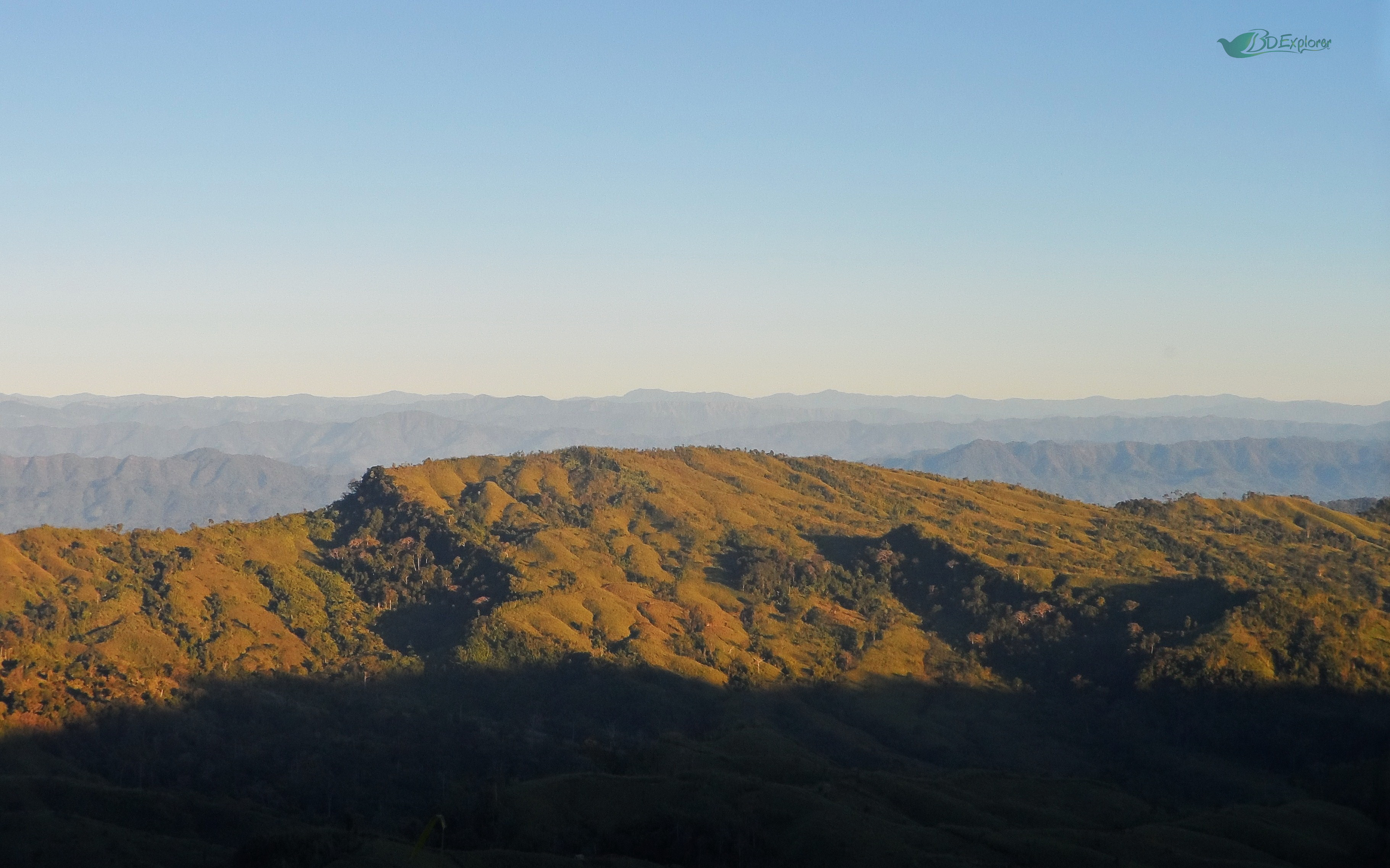 last major border peak of Rang Tlang range